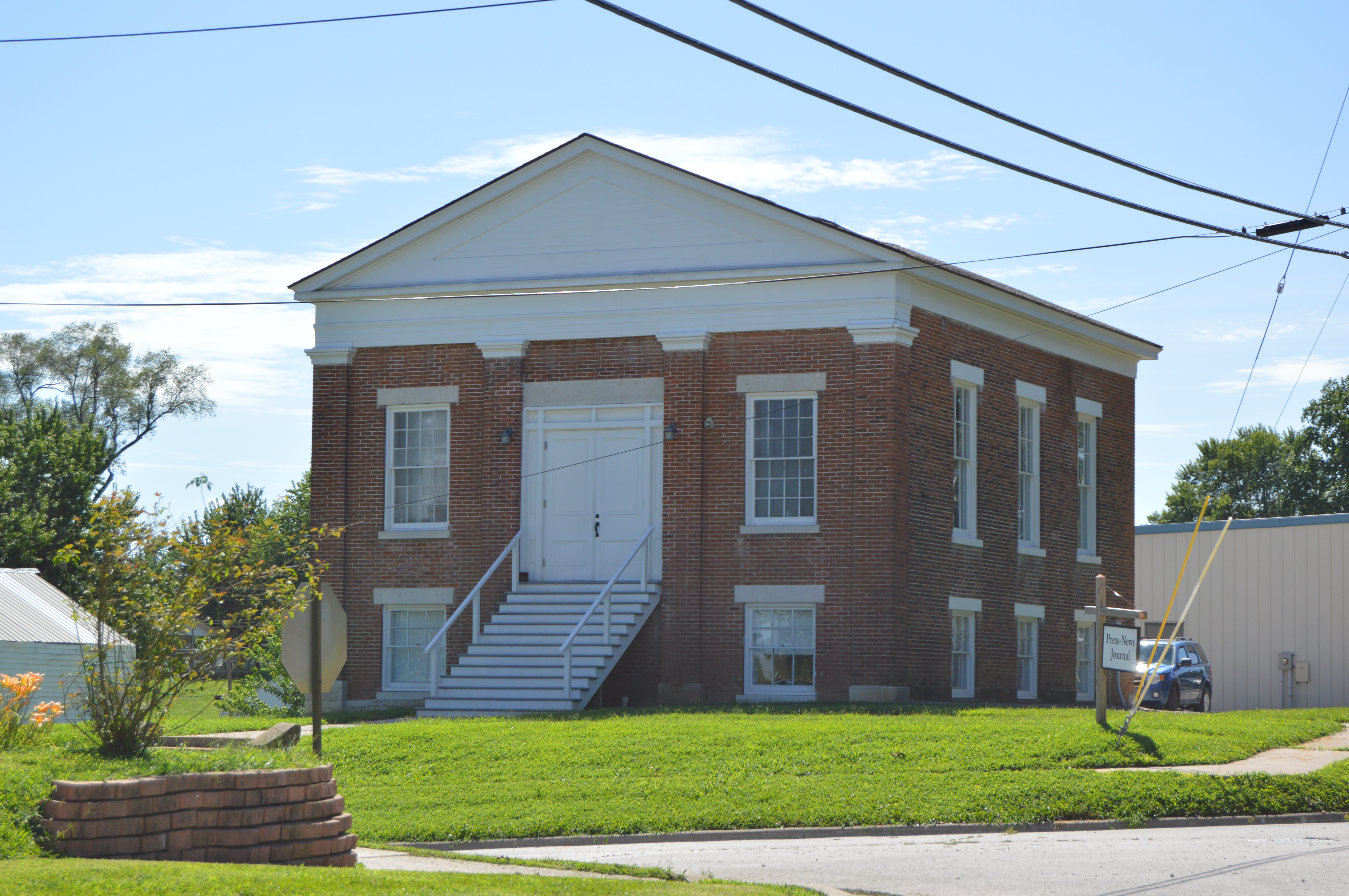 Front and northern side of the First Presbyterian Church, located at 302 Lewis Street in La Grange, Missouri, United States. Built in 1848, it is listed on the National Register of Historic Places.